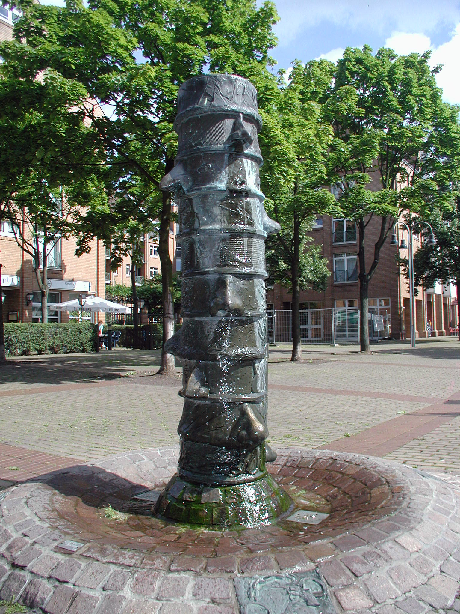 Cologne, fountain "Läsche Nas"